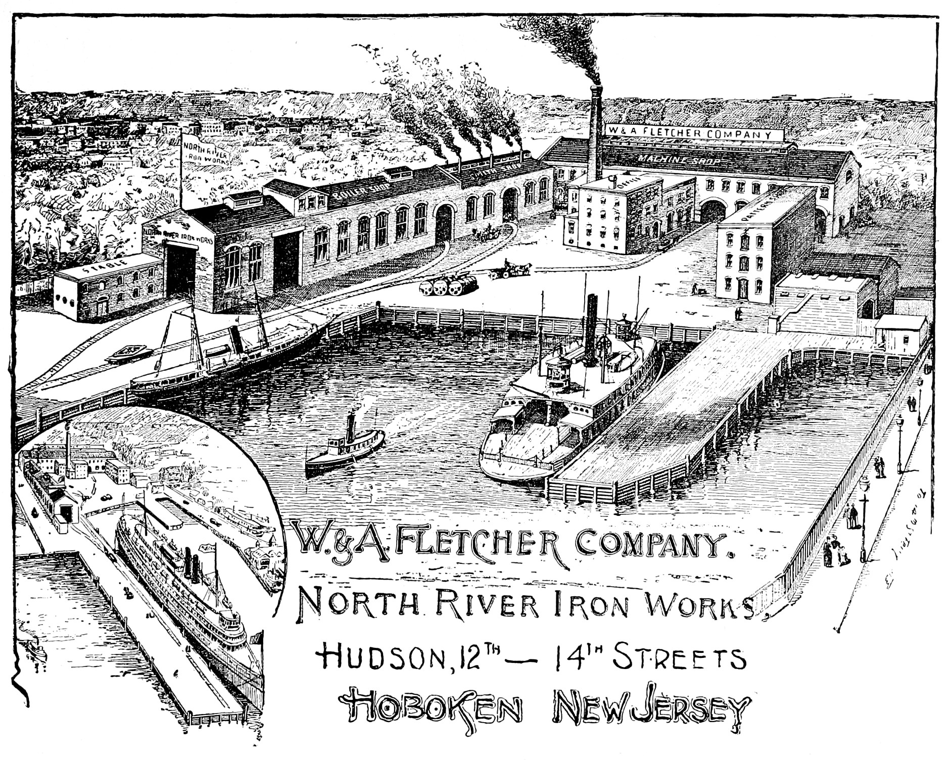 An 1893 advertisement for the W. & A. Fletcher Company, a marine engineering company based in Hoboken, New Jersey. This is a cropped version of the original advertisement.